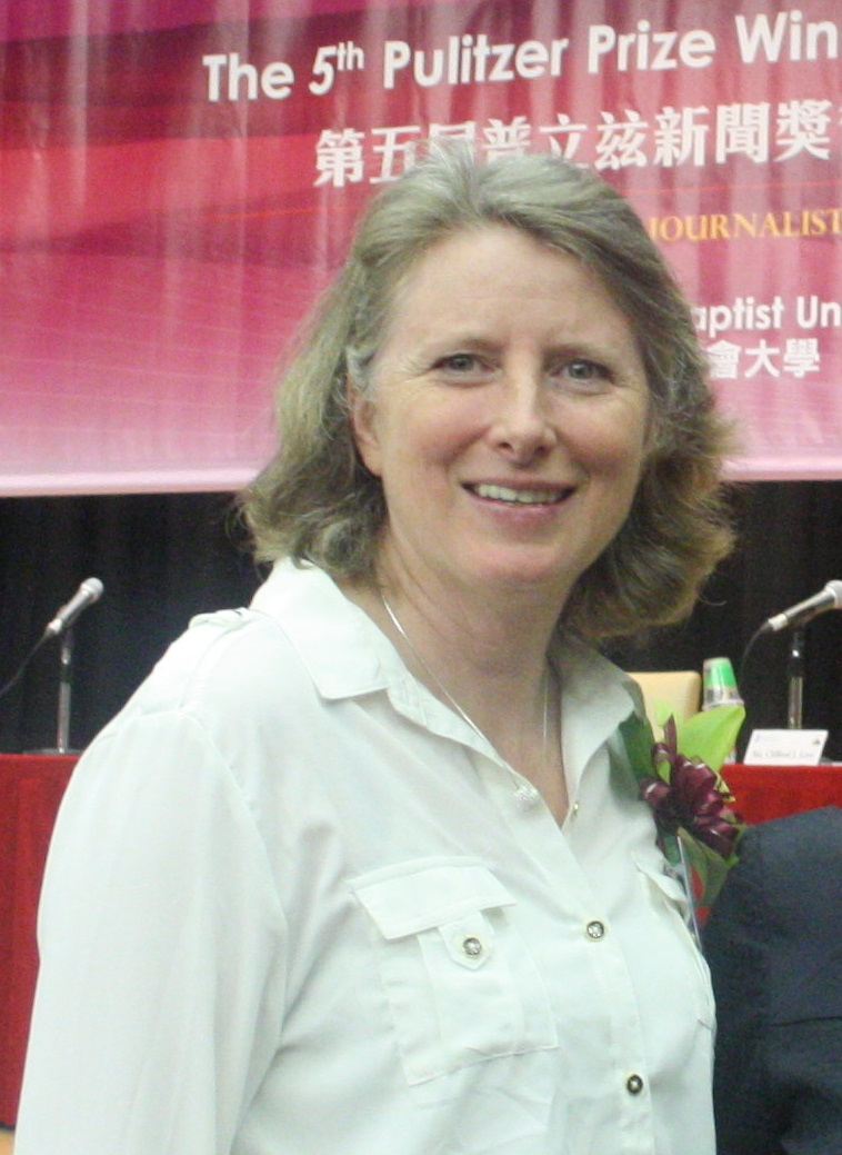 Pulitzer prize winning journalist Paige St. John at the 2012 Hong Kong Baptist University 5th Annual Pulitzer Prize Winners Workshop.